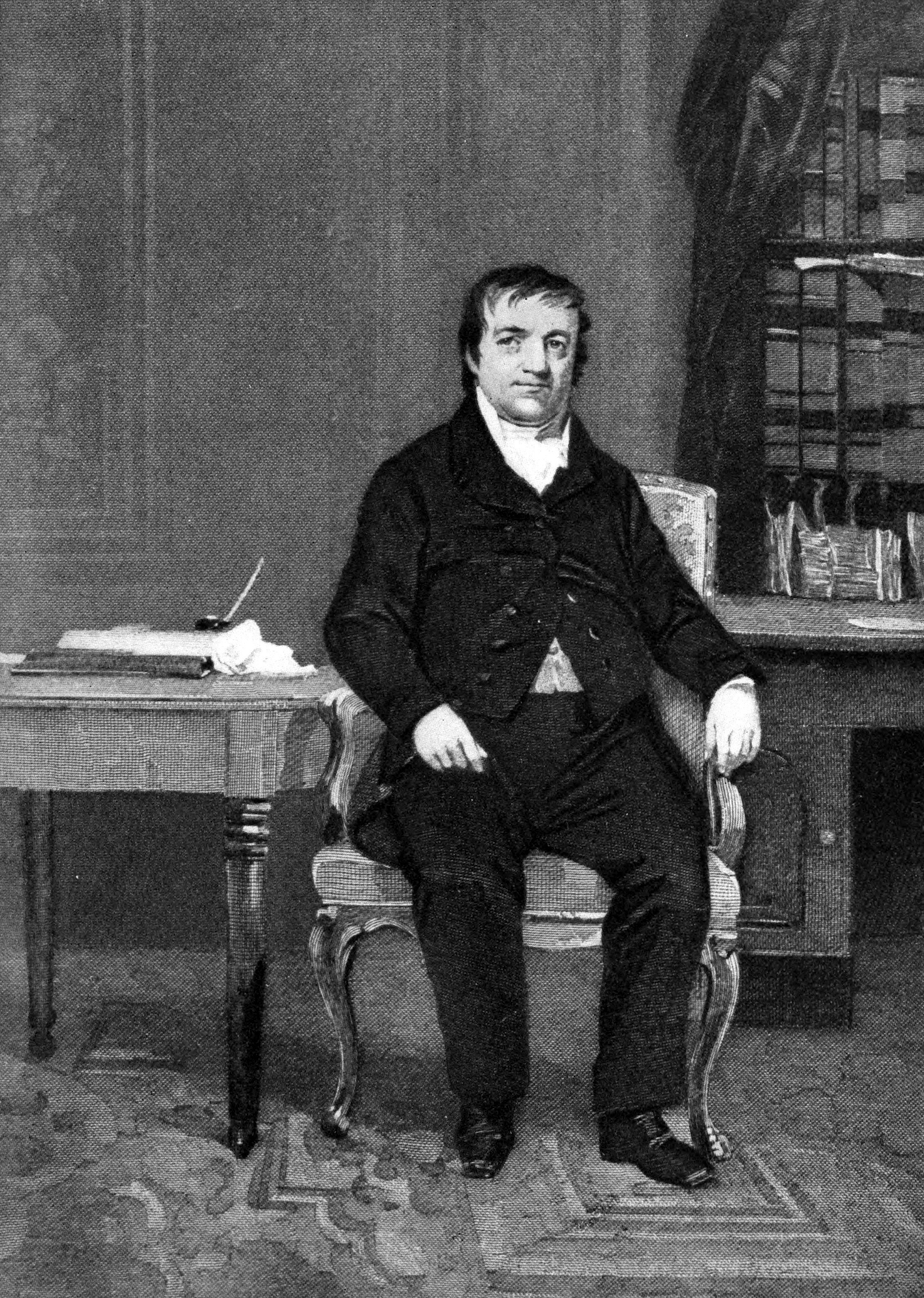 Photograph of portrait bust of bibliographer and innovative educator Joseph Green Cogswell.